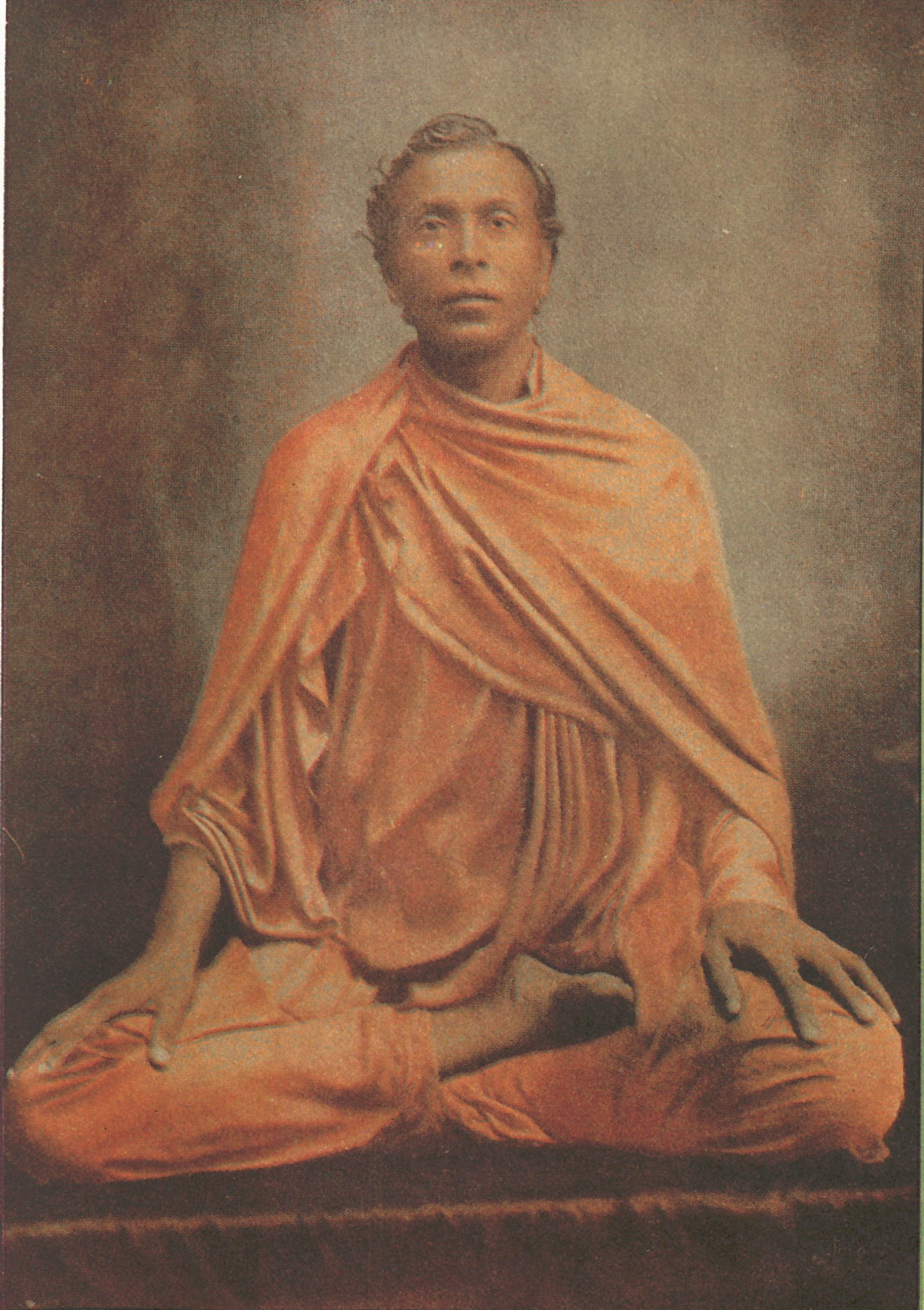 Srimath Anagarika Dharmapalaසිංහල: අනගාරික ධර්මපාලතුමා